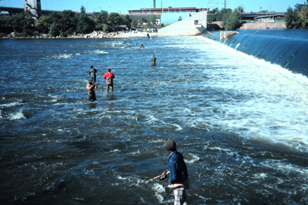 Sportfishing for Chinook salmon. Chinook are highly prized by commercial, sport, and subsistence fisheries.